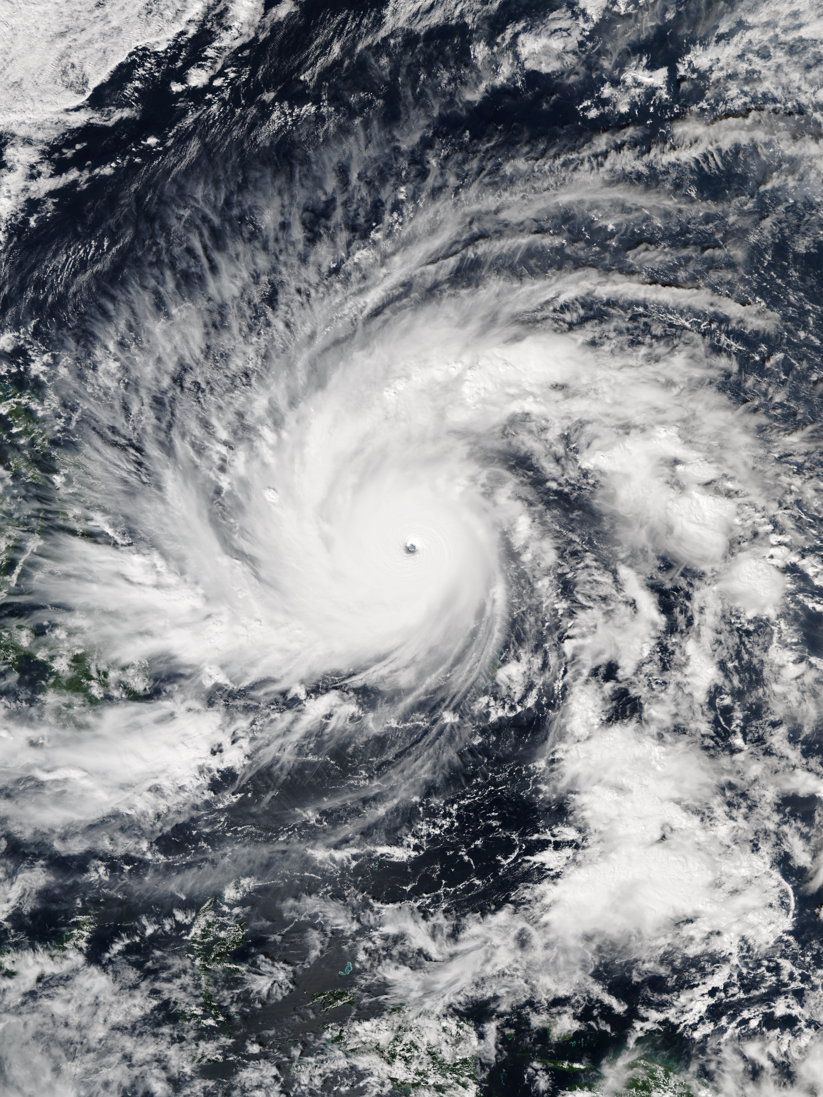 The Visible Infrared Imaging Radiometer Suite (VIIRS) sensor on Suomi-NPP captured this image of Typhoon Hagupit shortly before peak intensity on December 4, 2014, at 04:38 Universal Time.